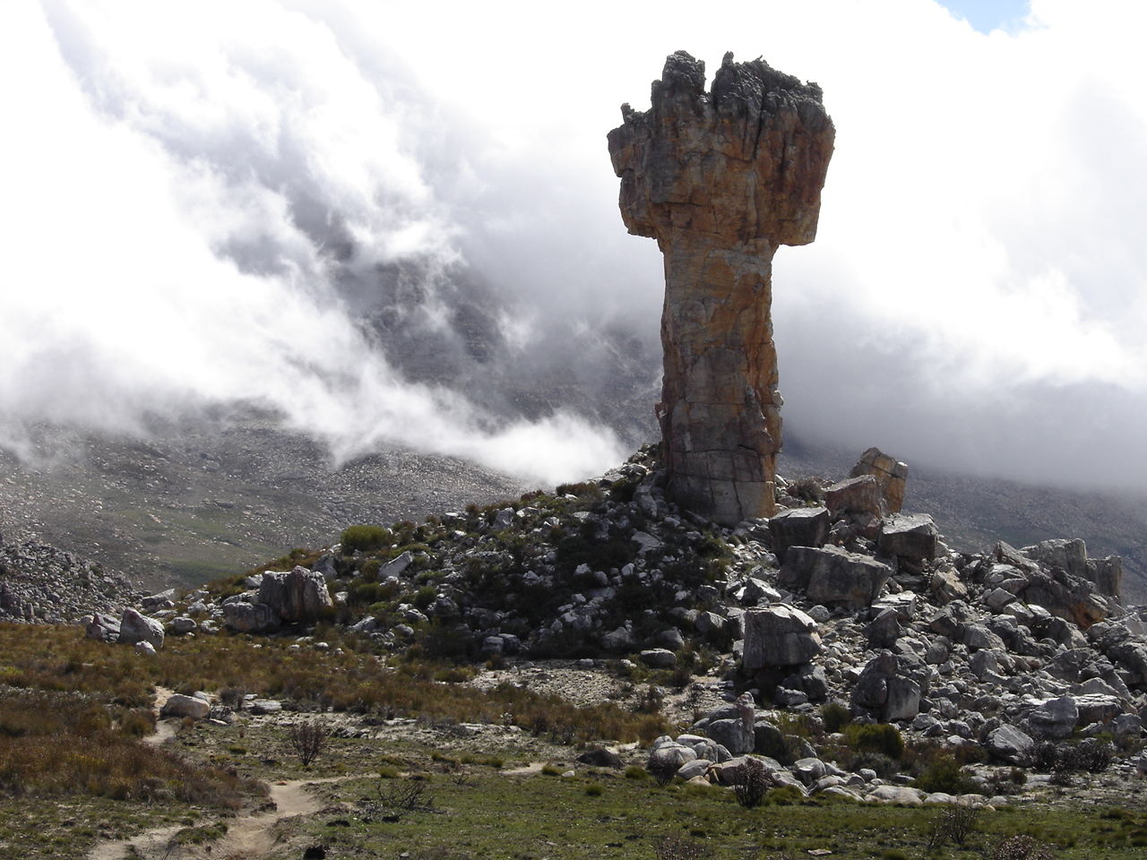 Maltese Cross, Rock formation, Cedarberg, South Africa